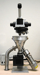 HC3-LM CL-microscope with hot cathode